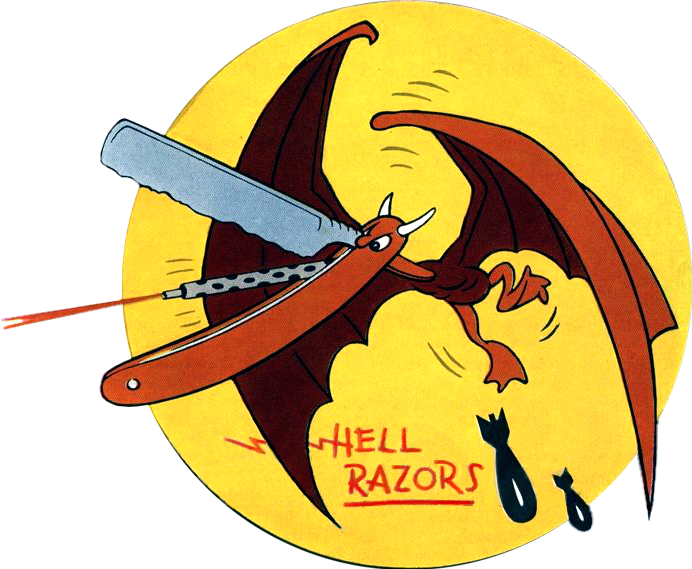 Insignia of the U.S. Navy Bombing Squadron 81 (VB-81) "Hell Razors", in 1944-45.